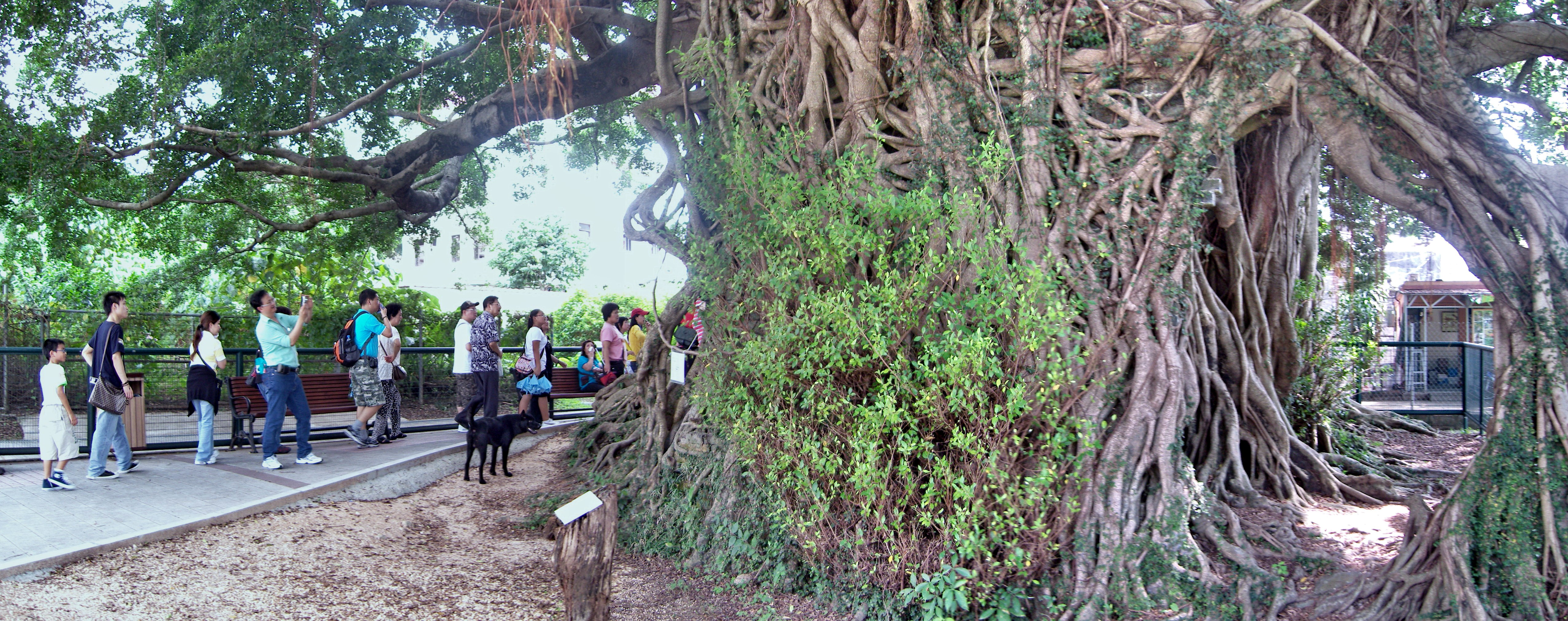 Kam Tin Tree House (An old banyan tree grew bigger and bigger besides the stone house, and after centuries, there're only part of brick walls and a granite doorframe left under the huge tree.) in Shui Mei Village, Kam Tin, Hong Kong.